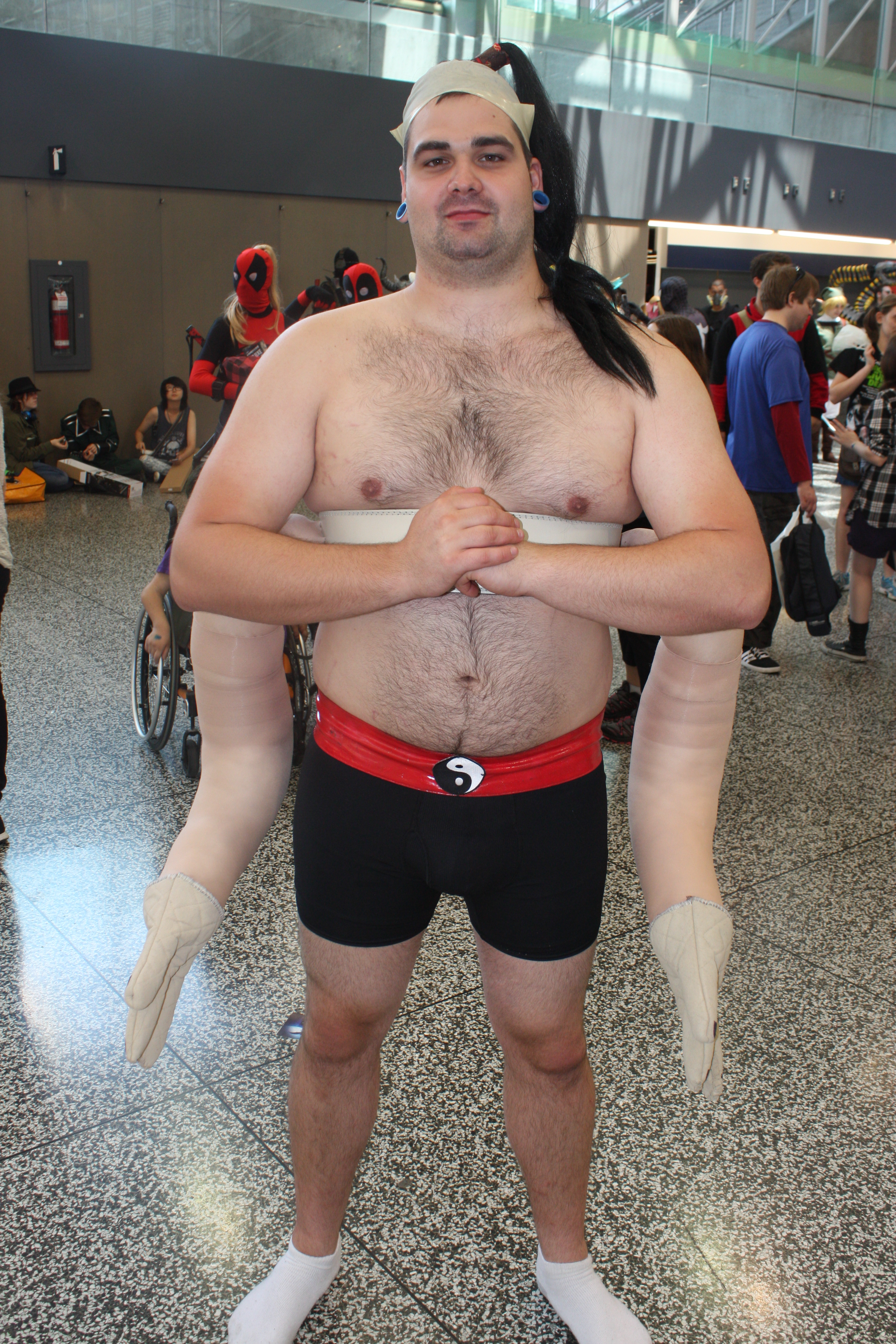 Cosplay one day two of Montreal Comiccon 2015.